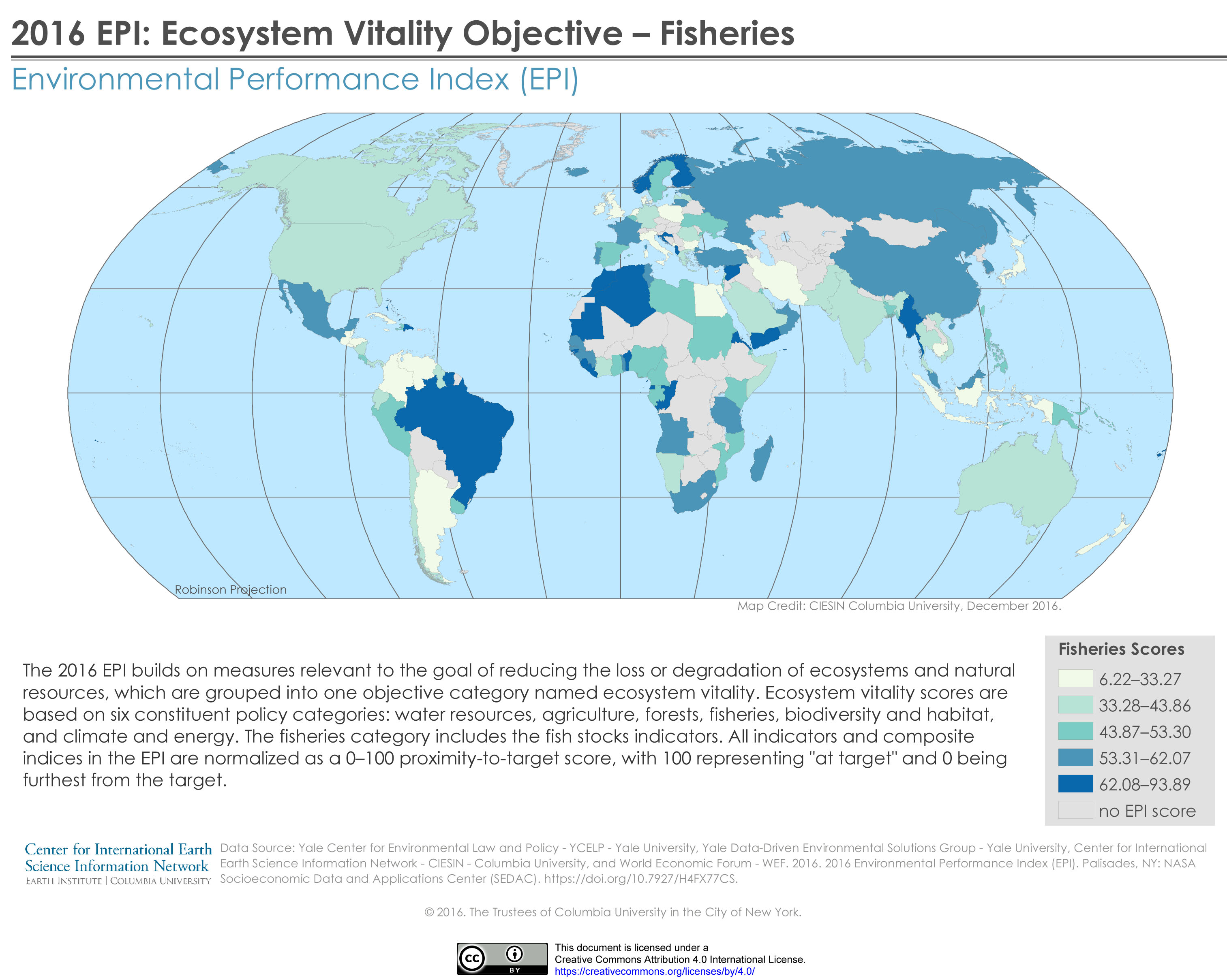 The 2016 EPI builds on measures relevant to the goal of reducing the loss or degradation of ecosystems and natural resources, which are grouped into one objective category named ecosystem vitality. Ecosystem vitality scores are based on six constituent policy categories: water resources, agriculture, forests, fisheries, biodiversity and habitat, and climate and energy. The fisheries category includes the fish stocks indicators. All indicators and composite indices in the EPI are normalized as a 0–100 proximity-to-target score, with 100 representing "at target" and 0 being furthest from the target. The Environmental Performance Index, 2016 Release (1950-2016) data set is part of the Environmental Performance Index (EPI) collection. See more information at .